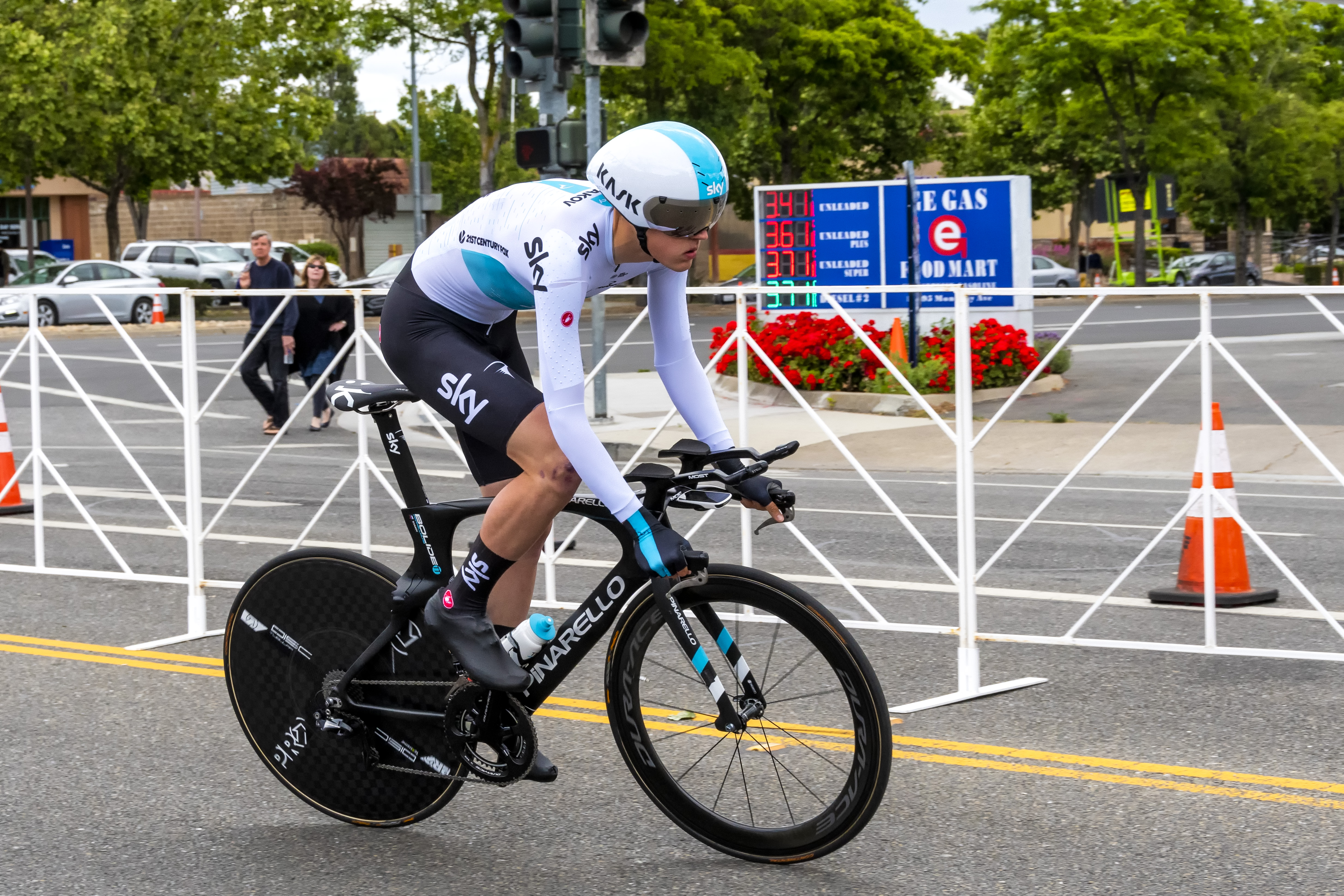 Amgen Tour of California 2018 Stage 4 Time Trial in Morgan Hill UCI World Tour